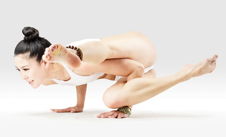 Mr-yoga-ashtavakra-prep